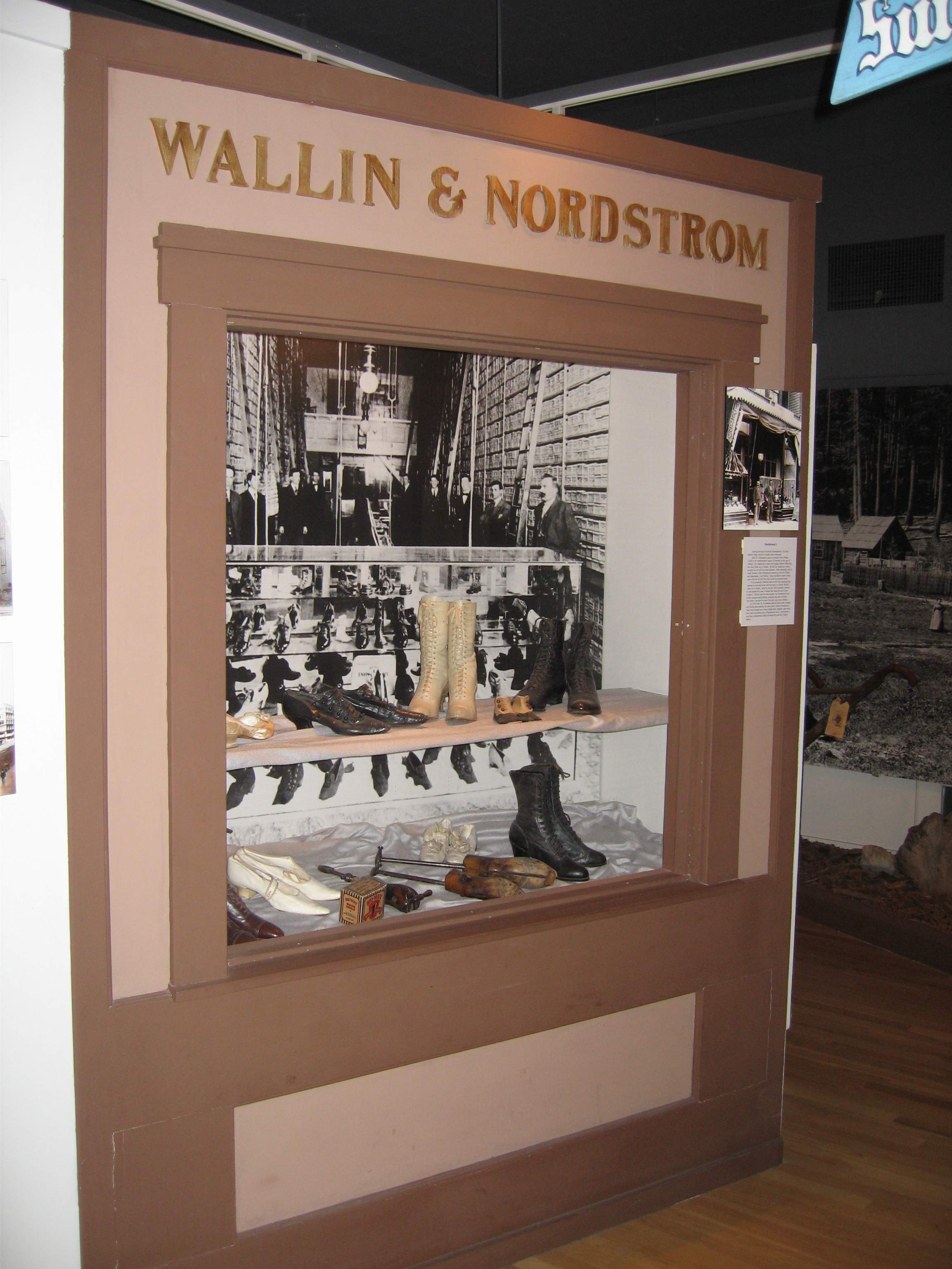 Nordic Heritage Museum, Ballard, Seattle. Interior exhibit: Wallin & Nordstrom.